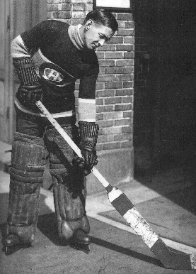 A photo of Georges Vézina, goaltender of the Montreal Canadiens, 1910-1925.